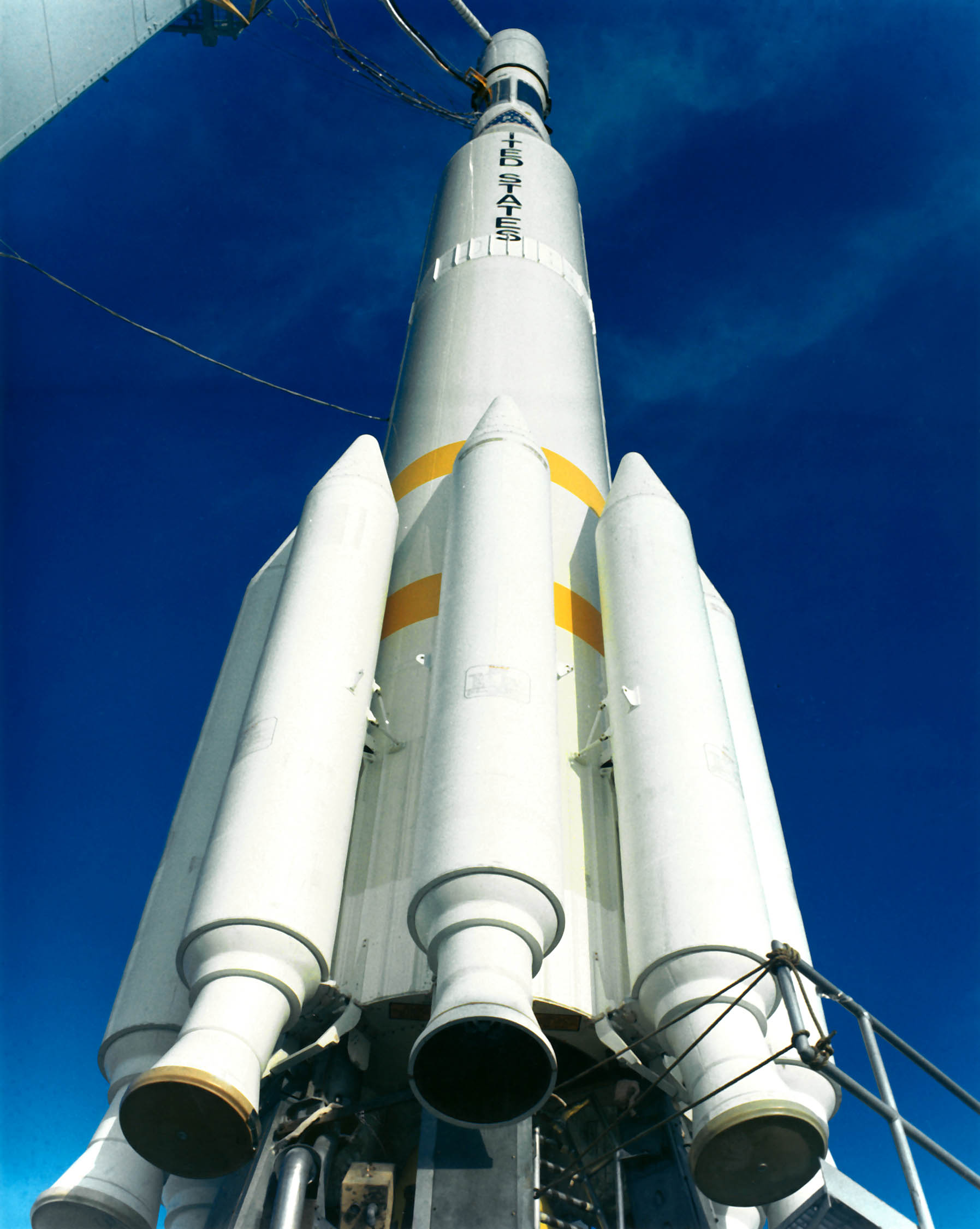 Nimbus E, the sixth spacecraft in the Nimbus series, is shown preparing for launch on December 12, 1972 from the Western TestRange (WTR), Space Launch Complex SLC-2, West, by the Thrust-Augmented Delta vehicle. The satellite was placed in an1100-kilometer run-synchronous nearly circular polar orbit. Thespacecraft was designated Nimbus 5 upon confirmation that it hadachieved successful orbit. The Delta launch vehicle family started development in 1959. The Delta is composed of partsfrom the Thor, an intermediate-range ballistic missile, as itsfirst stage, and the Vanguard as its second. The first Delta waslaunched from Cape Canaveral on May 13, 1960 and was powerful enough to deliver a 100-pound spacecraft into geostationary transfer orbit. Delta has been used to launch civil, commercial,and military satellites into orbit. For more information about Delta, please see Chapter 3 in Roger Launius and Dennis Jenkins'book To Reach the High Frontier published by The UniversityPress of Kentucky in 2002.